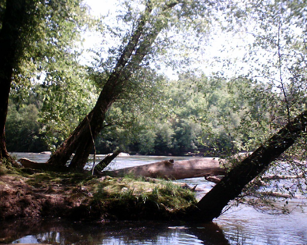 Riverbank at McIntosh Reserve, Georgia